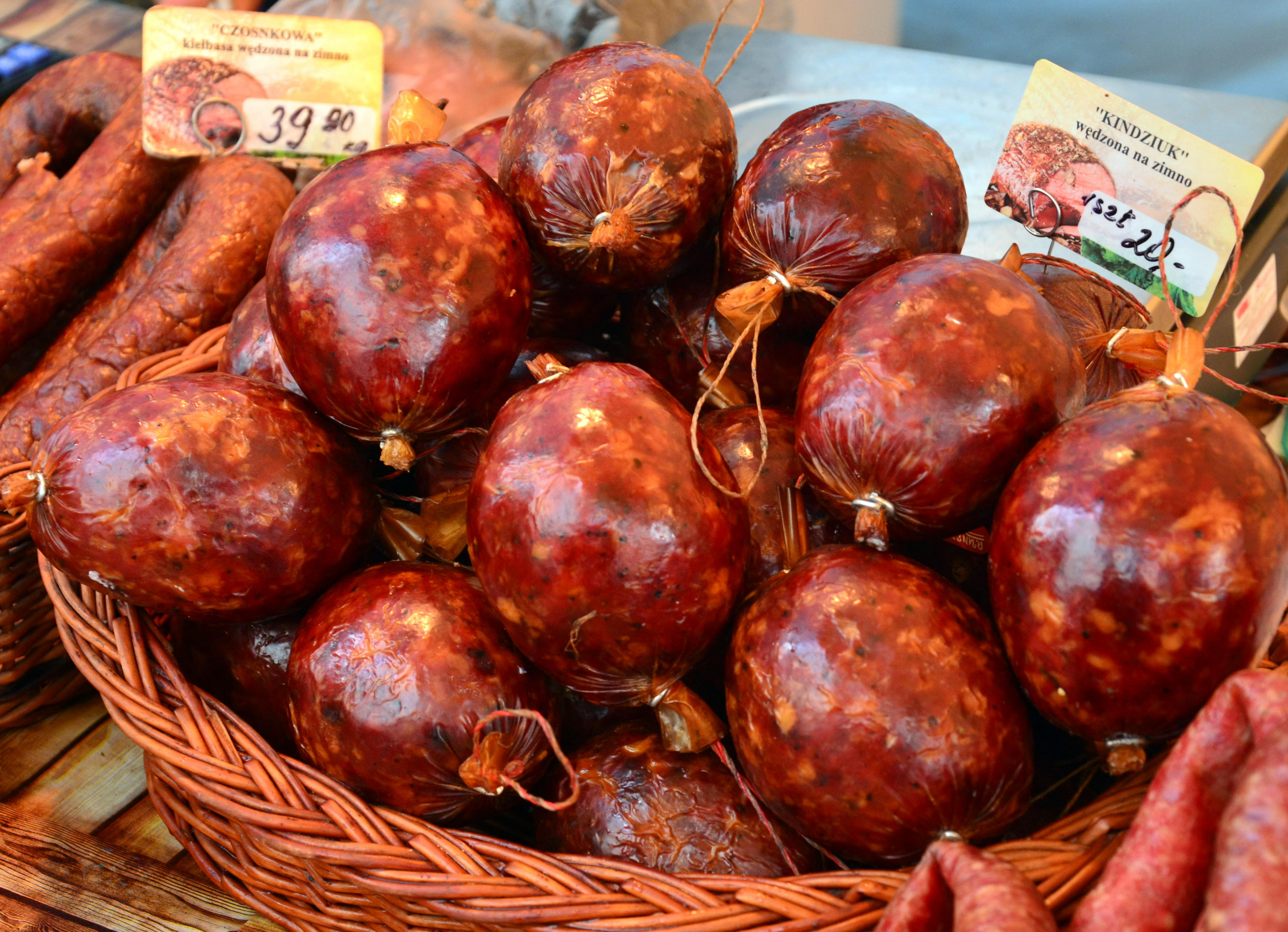 Skilandis oder Kindziukas